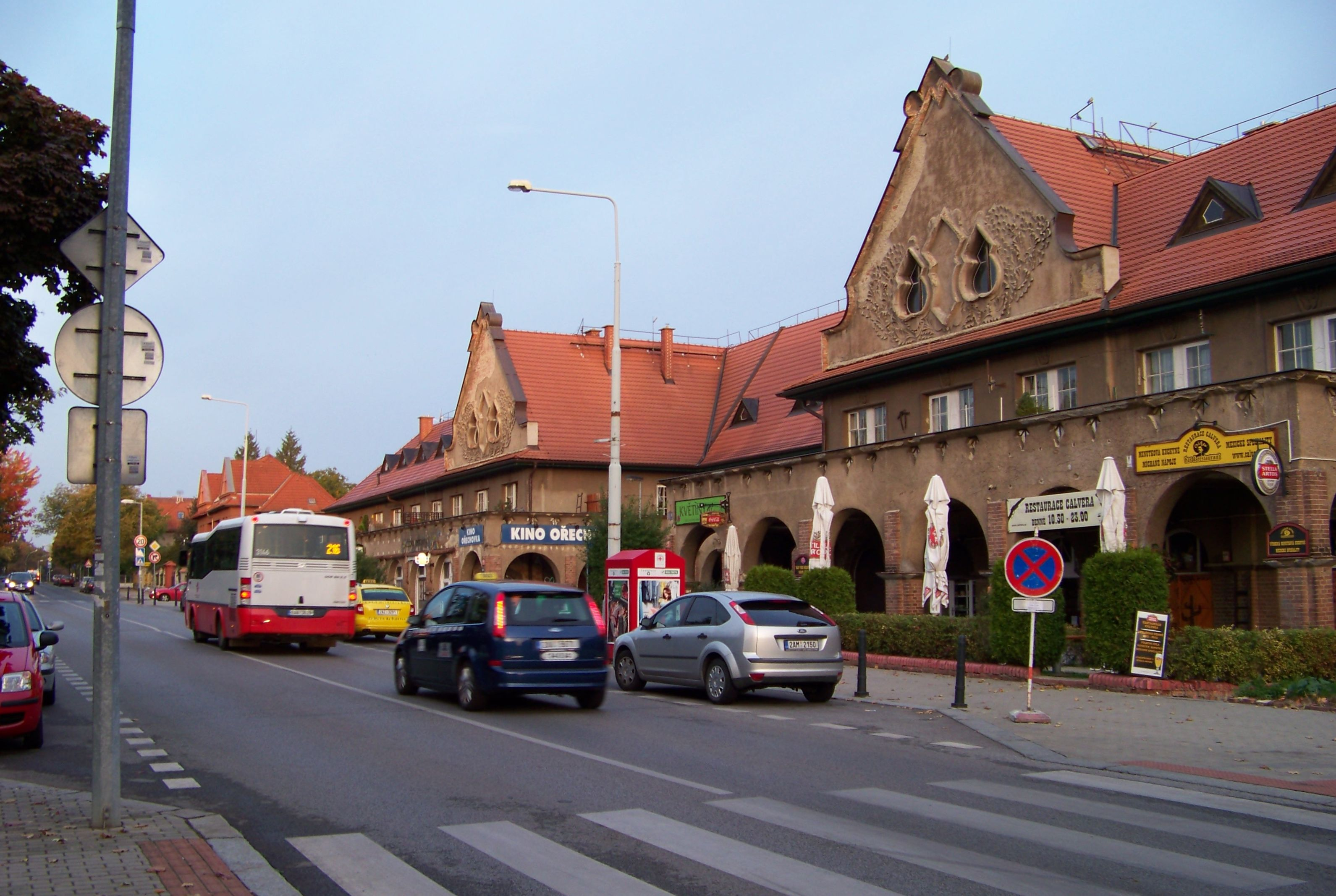 Prague-Střešovice, the Czech Republic. Na Ořechovce 250/30a, a central building.